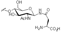 GlcNAc_Beta_Asn